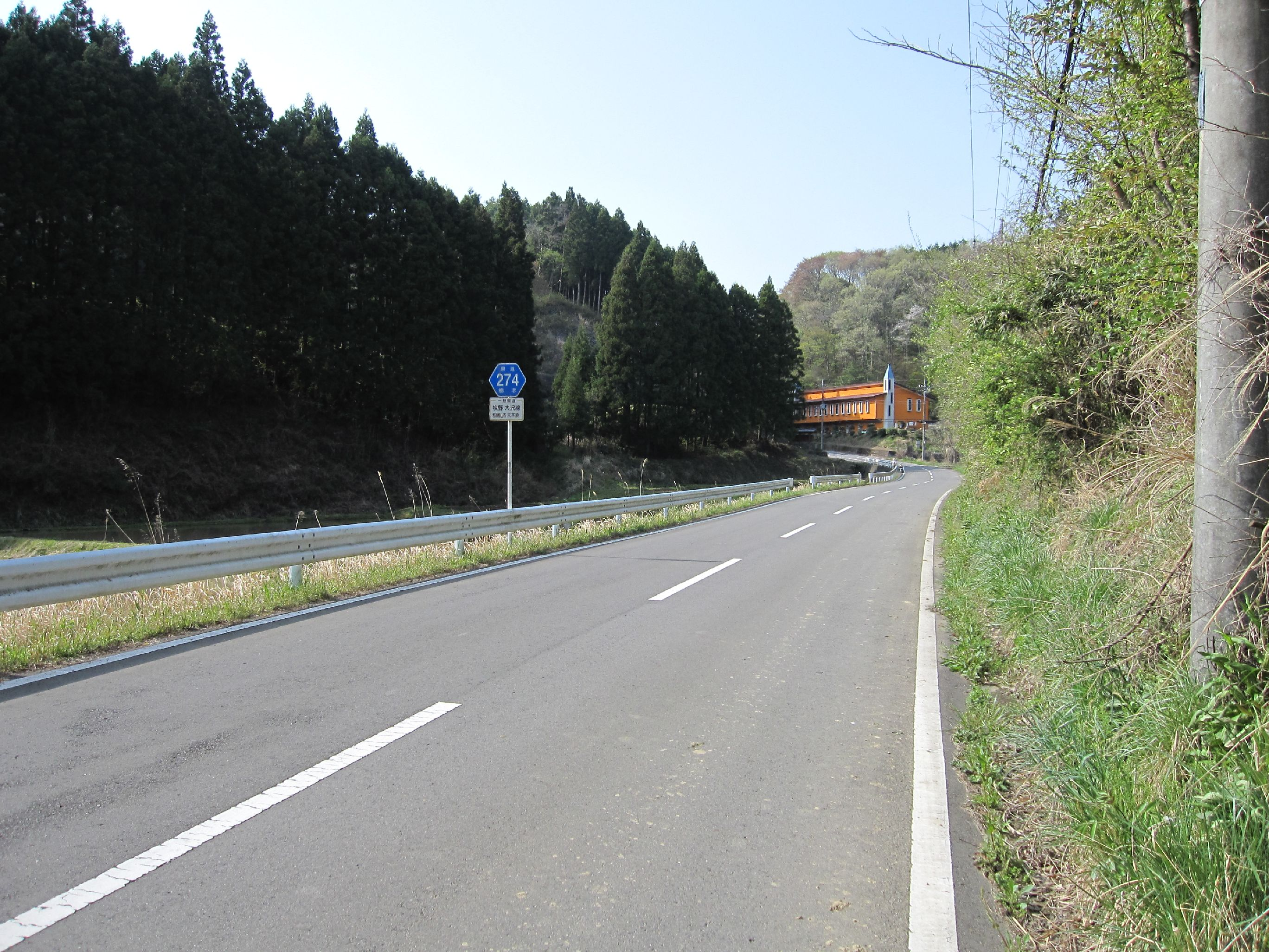 Tochigi prefectural road No.274 on Nasukarasuyama city